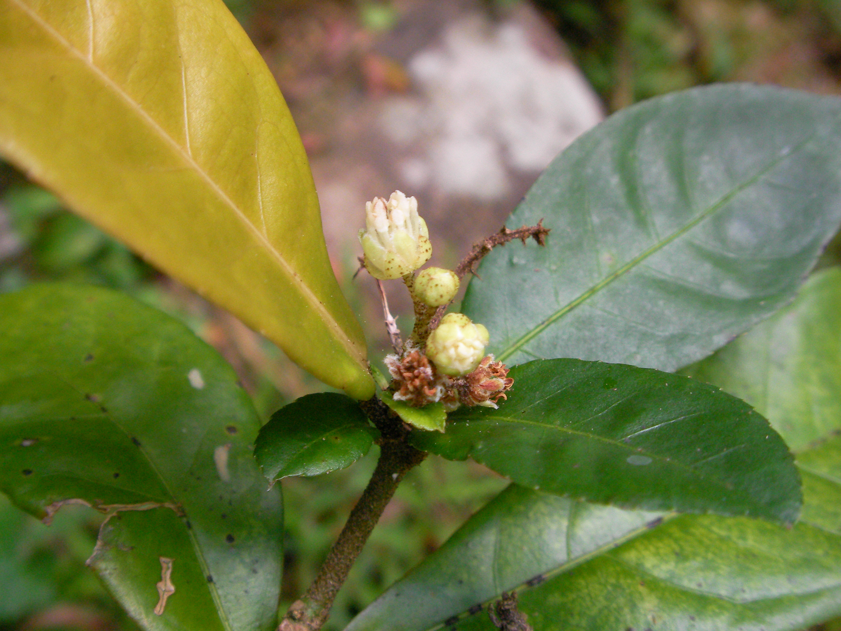 Flower of Croton hancei (Hong Kong Croton) taken in Shing Mun Arboretum, Hong Kong